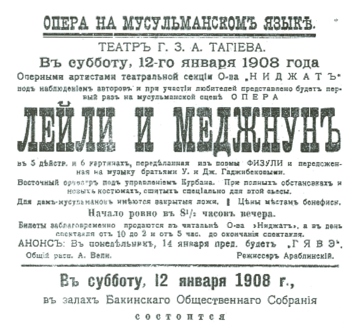 Uzeir Hajibeyov, first poster of "Leyla and Mejnun" opera, Baku, 1908.